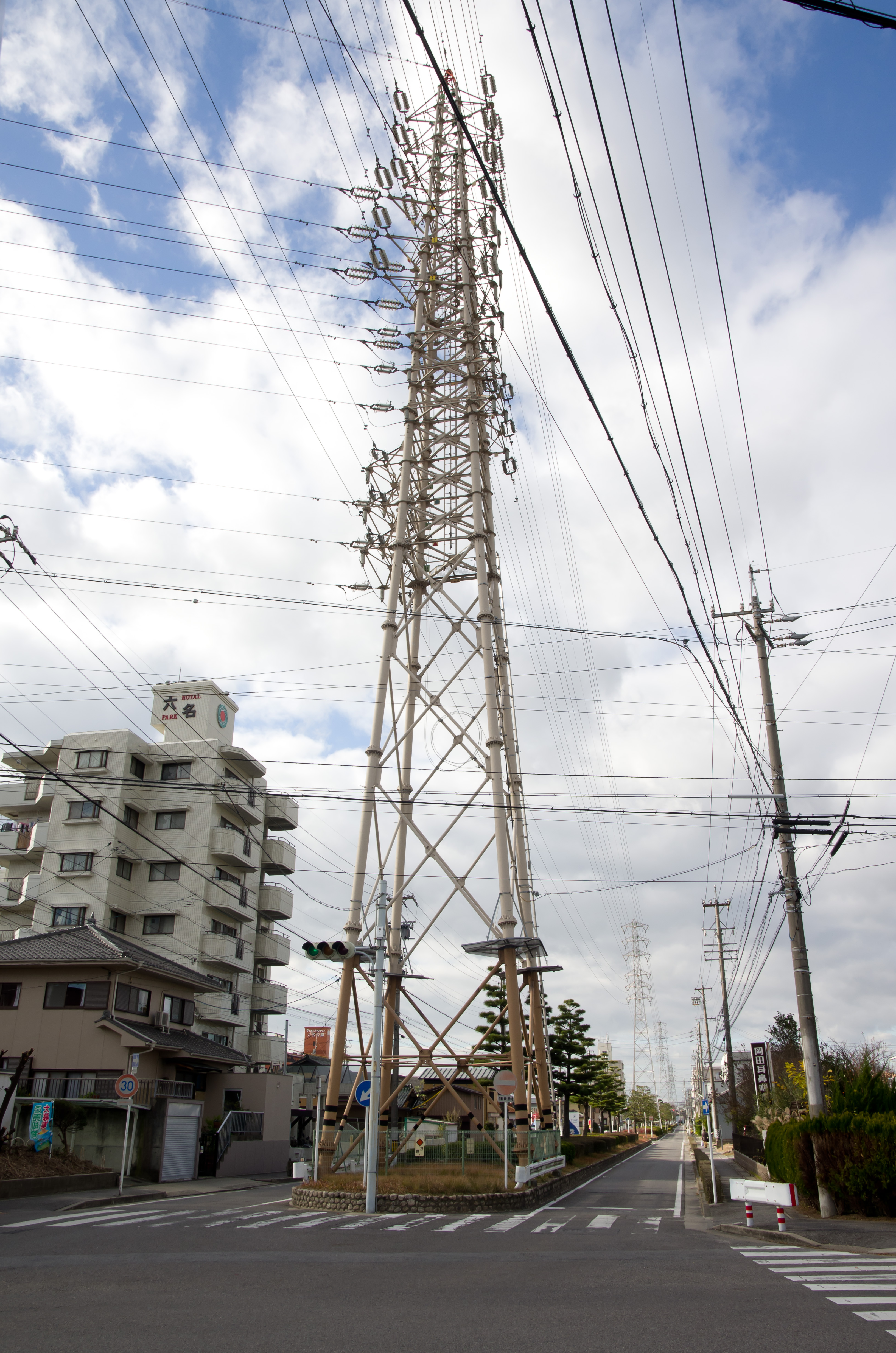 Starting Point of Mutsuna-Higashi Ryokudo in Okazaki, Aichi, Japan